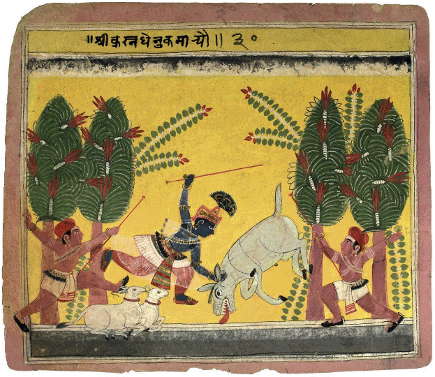 Krsna Killing Dhenukasura Bhagavat Purana – Malwa, Central India, c. 1650